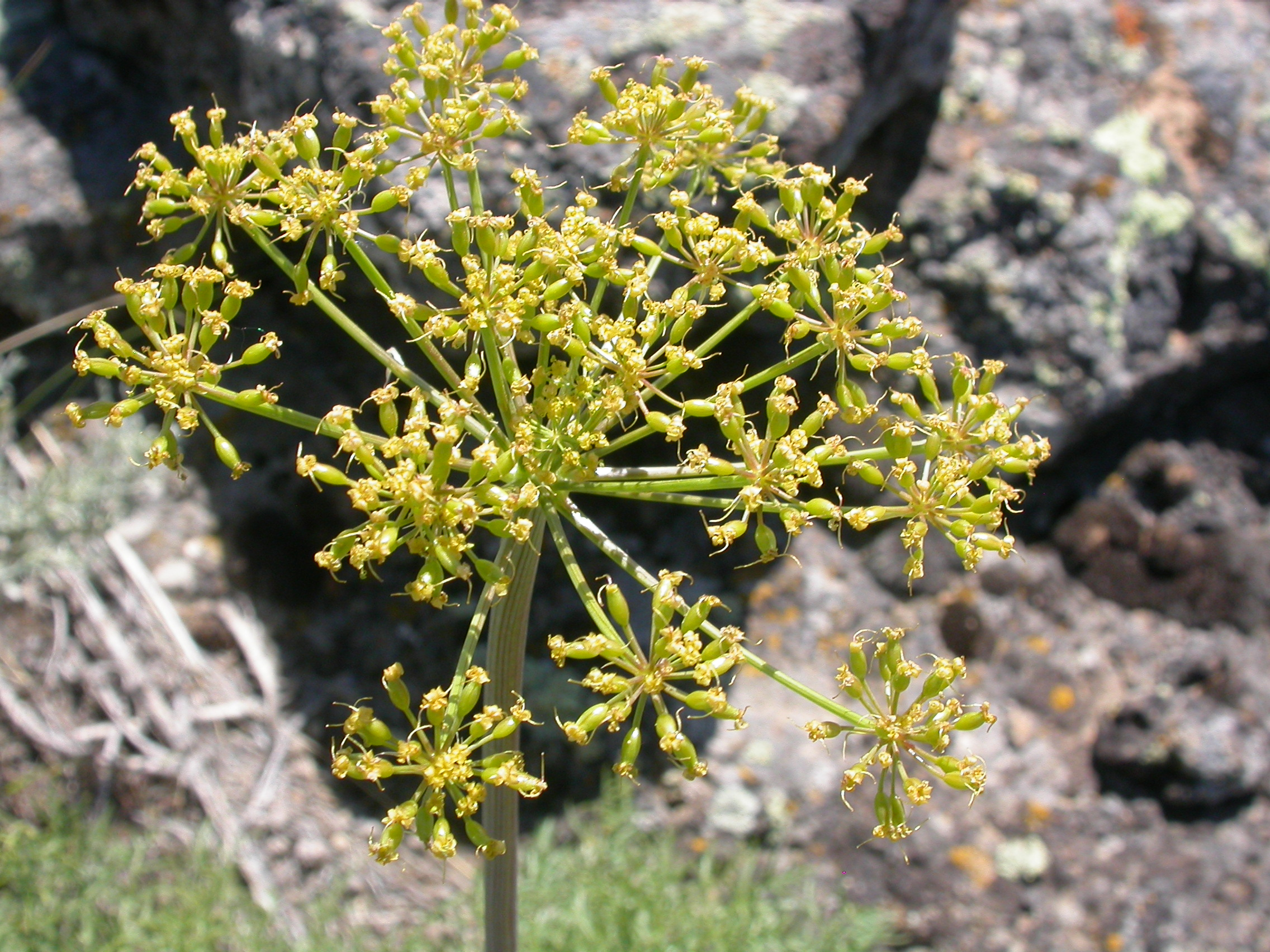 This species is the tallest statured of the Lomatiums and commonly stands over 2 feet tall at maturity.